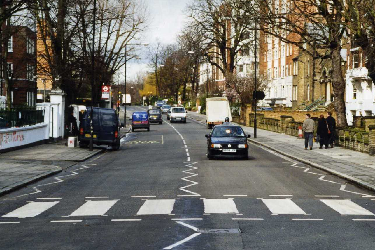 Abbey Road, London